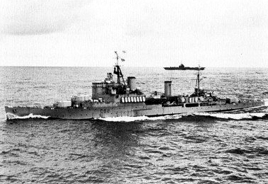 The Royal Navy cruiser HMS Bermuda (C52) underway. Bermuda was taking part in operation "Limejug II", an anti-submarine exercise with U.S. Navy Task Group 83.3 with the aircraft carrier USS Essex (CVS-9), and the Royal Canadian Air Force.